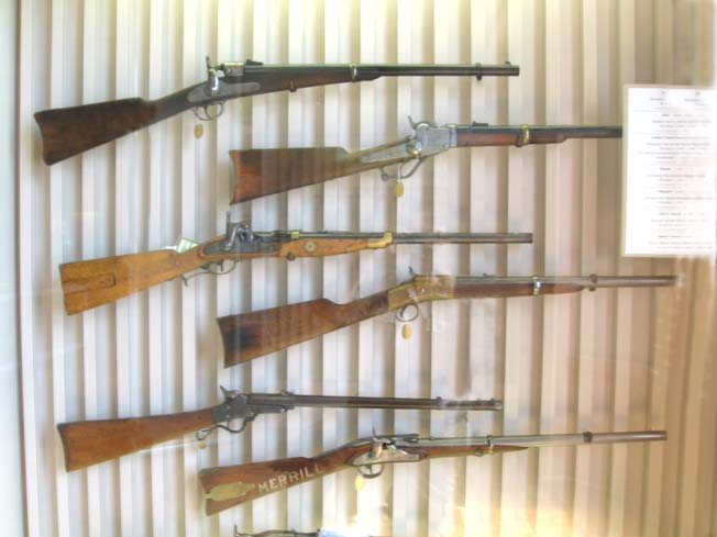 Contract Carbines. Rifle-muskets were not the only weapons in short supply during the Civil War and the government, as well as individuals, sought weapons where they could. One characteristic of these purchased weapons is their inventiveness. In the midst of conflict the government did not have the time to experiment with new weapons, essentially continuing the manufacture of rifle muskets that were the creation of more peaceful times. Private companies on the other hand, sought to expand their markets by improving their product. The result was variety, particularly in carbines. Joslyn Carbine Model 1864 .52 SPAR 1245 Starr Carbine .54 SPAR 1246 Lindner alteration of Austrian Carbine .58 SPAR 1247 Warner Carbine .50 SPAR 1248 Maynard Carbine Second Model .50 SPAR 698 Merrill Carbine Type I .54 SPAR 1250 Spencer Carbine Model 1860 .52 SPAR 4862